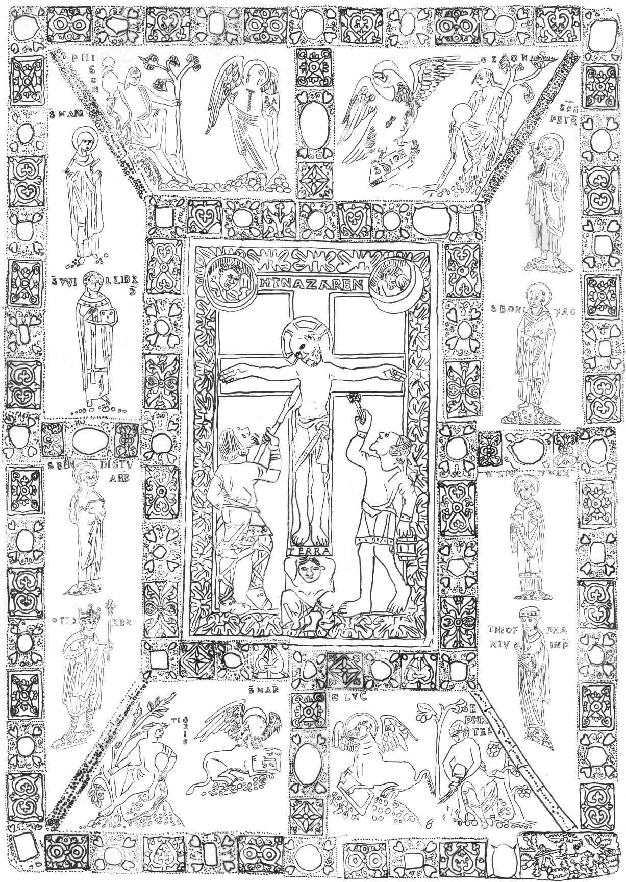 Drawing of the Front Cover of Codex aureus Epternacensis, showing the pictures of St. Johannes, Geon, St. Petrus, St. Bonifatius, St. Liudger, Theophanu, Euphrat, St. Lukas, St. Mark, Tigris, Otto, St. Benedikt, St. Willibrord, St. Maria, St. Matthew, Phison (clockwise), on the ivory plate around Christus: Sol, Luna, Terra, Longinus and Stephaton